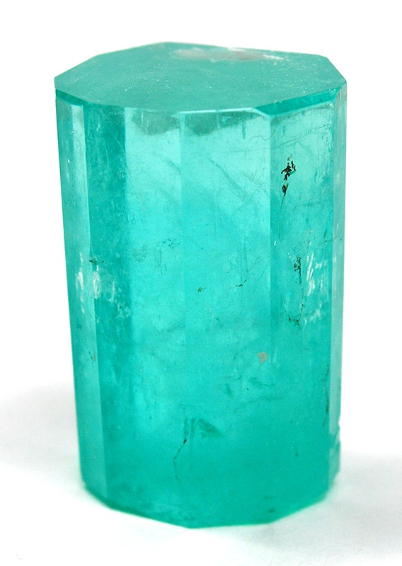 Beryl Locality: Chivor Mine, Chivor, Guavió-Guatéque Mining District, Boyacá Department, Colombia (Locality at ) Size: miniature, Large Thumbnail Emerald (12-SIDED) A simply stunning, fat thumbnail-sized crystal of emerald with very good COLOR , LUSTRE , and GEMMINESS...in person, much better than you can relate from the pics. The termination is glassy. The upper half is quite gemmy and mostly transparent, whereas it grades to opacity towards the base. This has some intrinsic facet rough value in the top portion although it is admittedly included in parts by internal veiling; but this is ironically of benefit to the specimen collector because its still very appealing as a specimen crystal and yet it survived the cutter because of slight flaws that do not matter as much in a specimen as in the cut stone. Also, if it were of the highest cutting grade, it would be unaffordable to the specimen collector - so one looks for the compromise between top quality and visual appeal in buying an emerald crystal, always aiming to have SOME intrinsic cutting value. Note that the piece is MUCH more gemmy in person because the camera cannot focus well on the crystal without going through to the back faces. You can actually see if you look closely how the faces you se ein the leftmost pic "in front" are actuyally the rear bevels showing through the completely gemmy upper portion of the crystal! BY THE WAY AS AN ADDED BIT OF INTEREST FROM THE FORMER OWNER: My Emerald is from the Chivor Mine. One of the key clues on this is the fact that the Emerald is 12 sided or Di-hexagonal. The Chivor is well known for this phenomenon. Niether Muzo or Cosquez produce these 12 sided xtls that I am aware of.